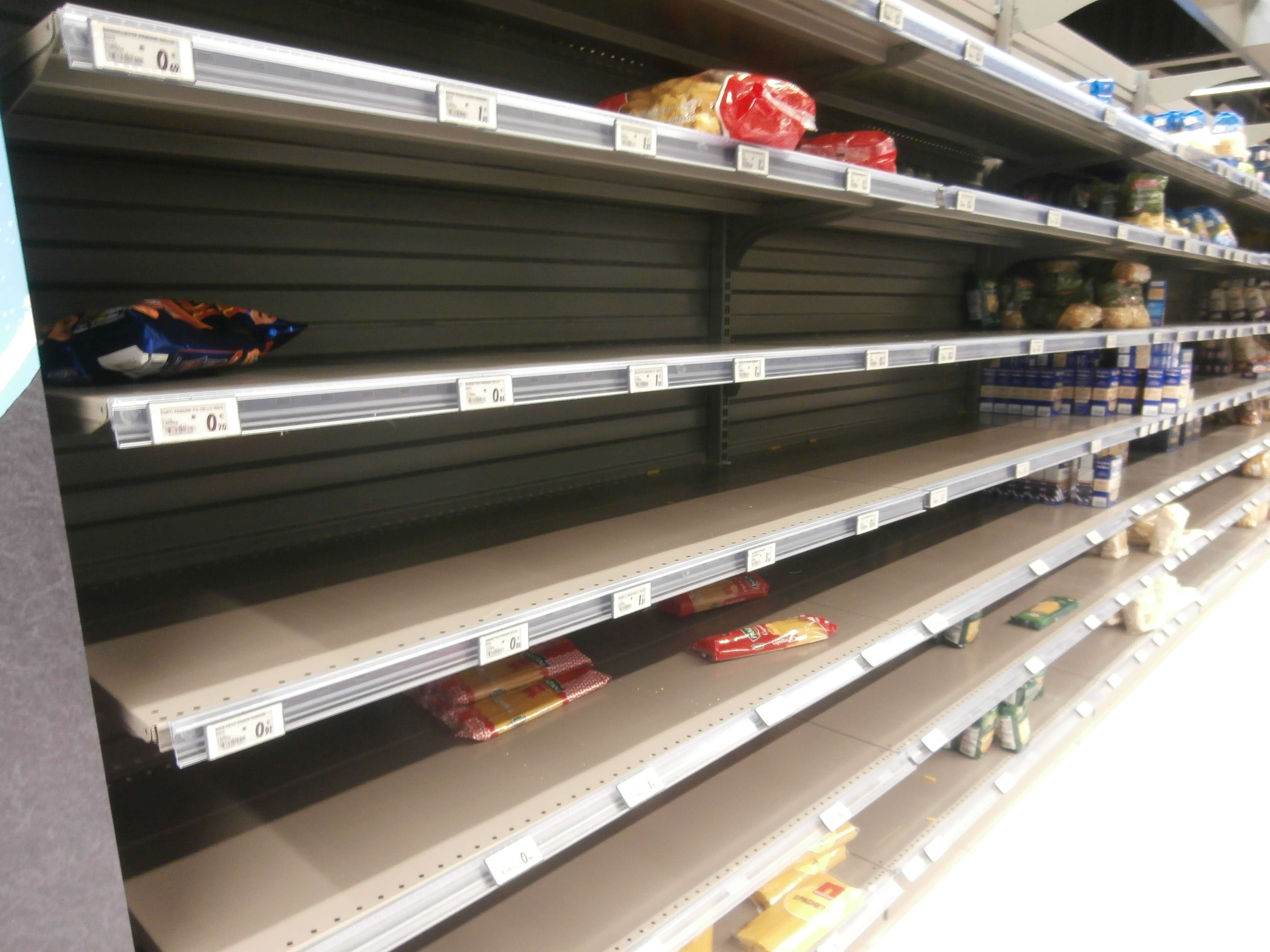 there are no more noodles